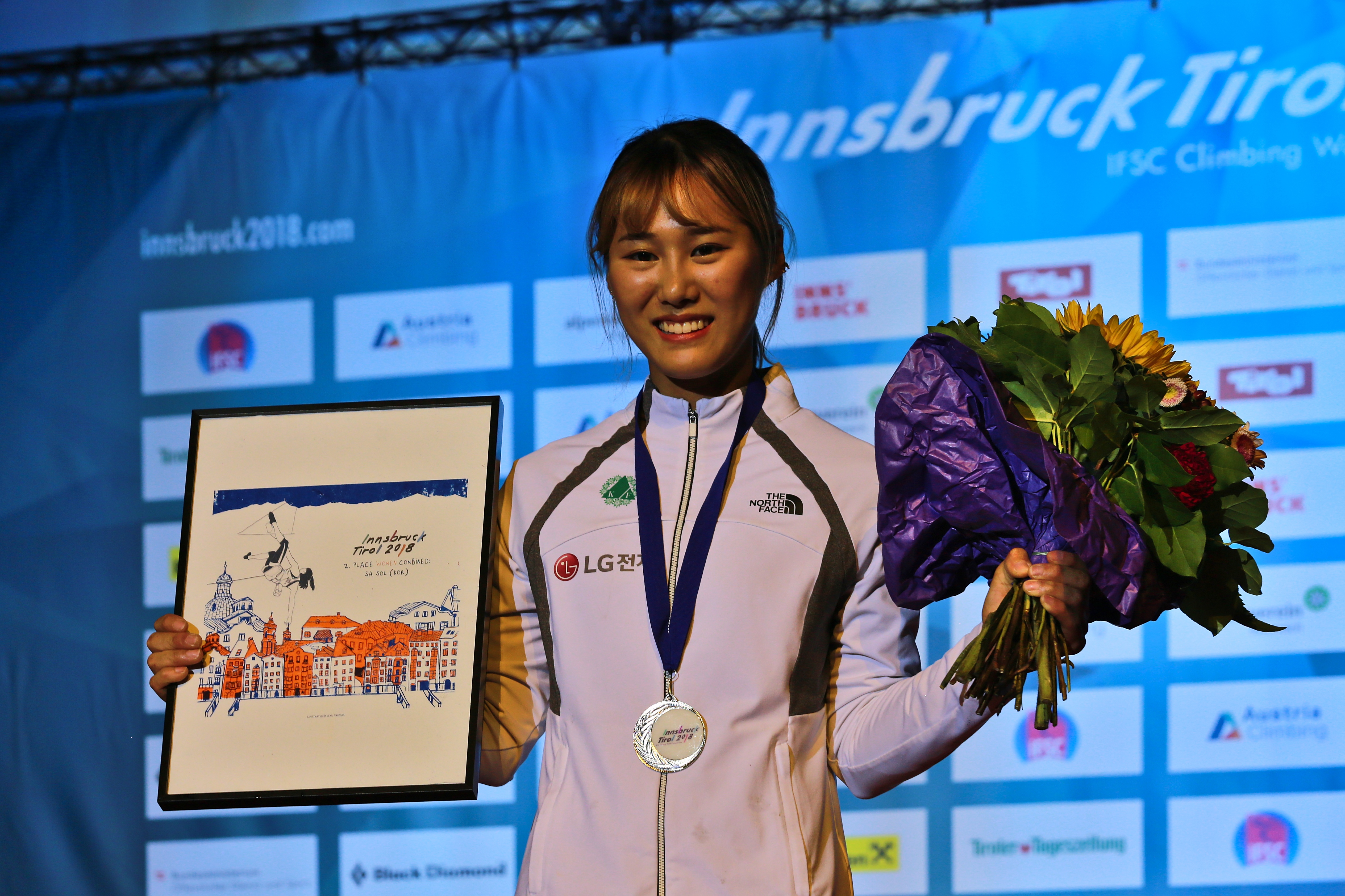 Climbing World Championships 2018 Combined Final Woman winners